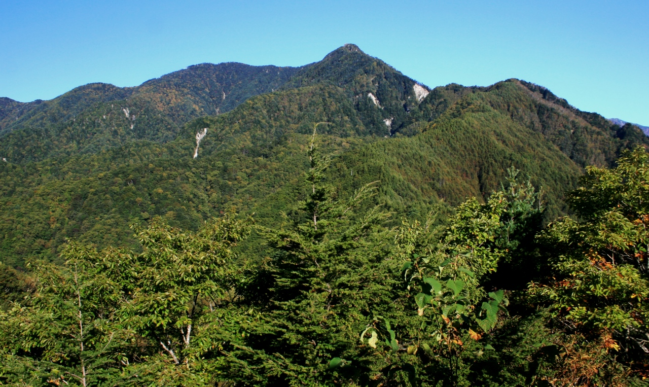 Eboshidake_from_Kohachirodake_2010-10-11